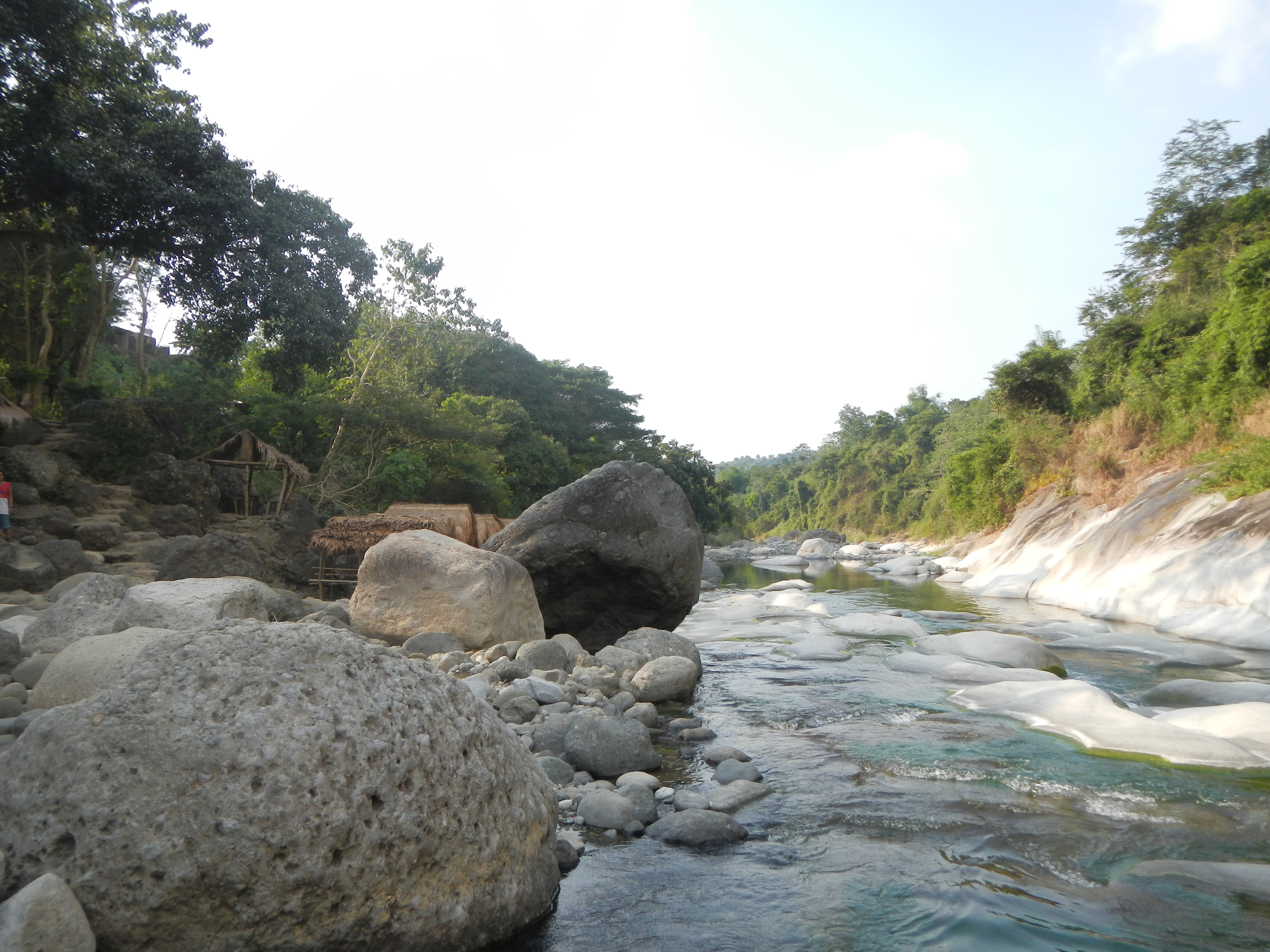 Tapuakan River and Resort (the cleanest river in Region I) Pugo, La Union[1]